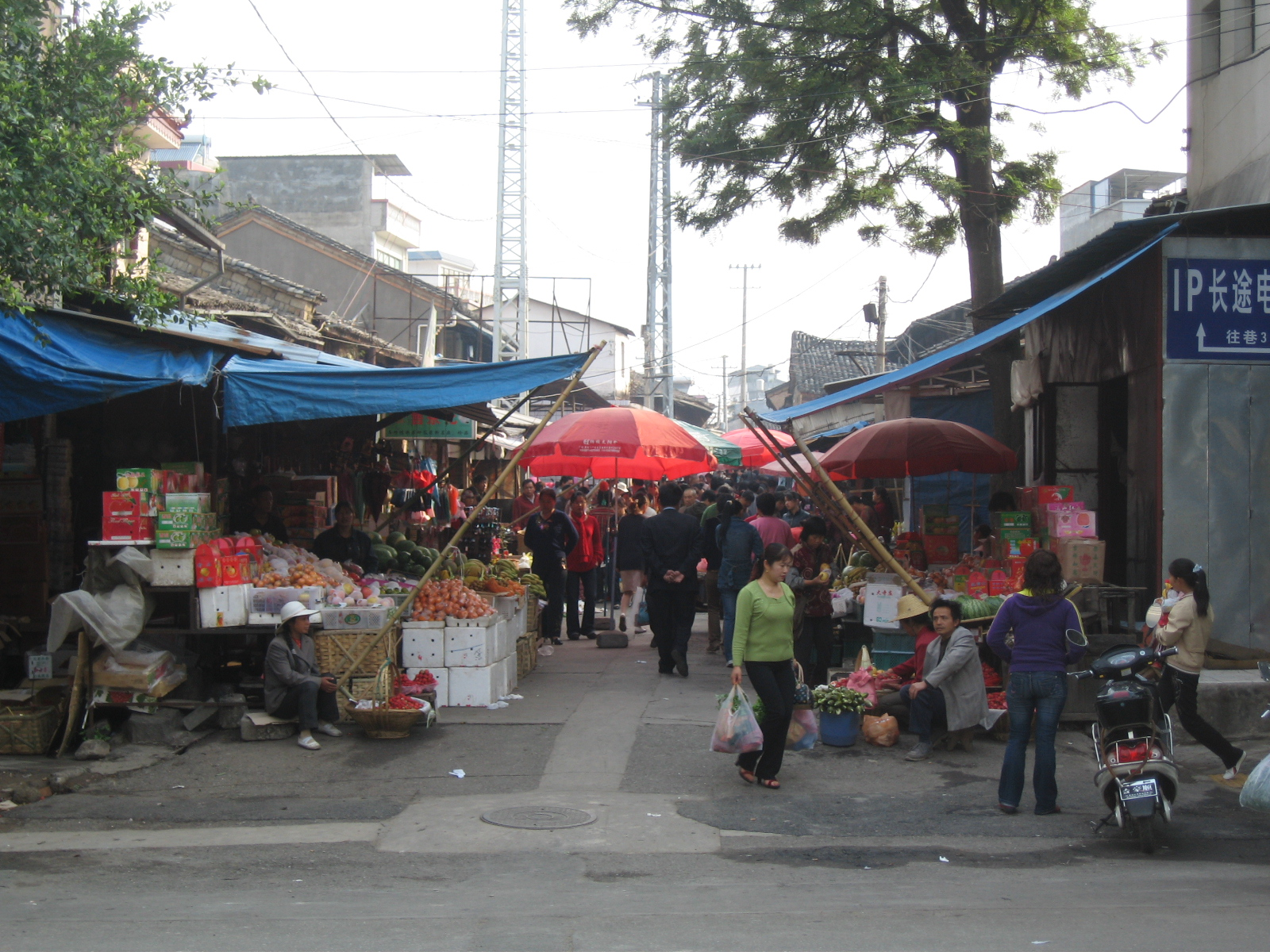 A market in central Tengchong.